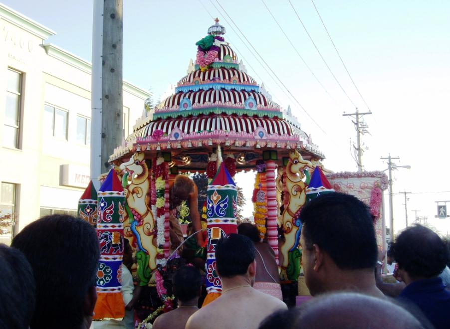 Ther of Pandarikulam